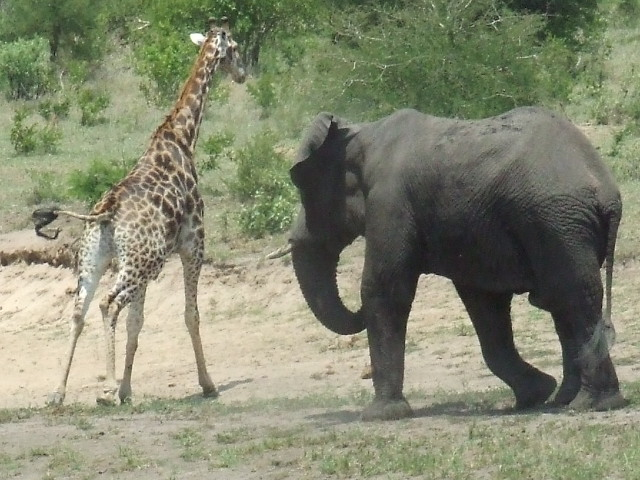 Elephant in musth showing a bull Giraffe in no uncertain way who's the boss.